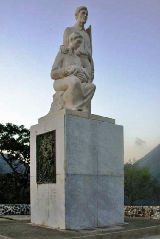 Puerto Rico, National Monument: El Jibaro. Photography by: F. Bucher